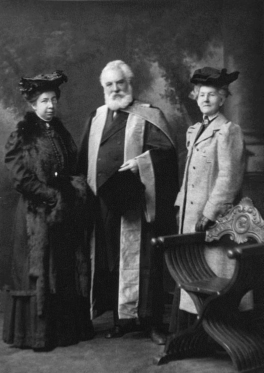 Alexander Graham Bell receives an honourary Doctor of Laws degrees (LL.D.) at the University of Edinburgh, U.K., 1906.